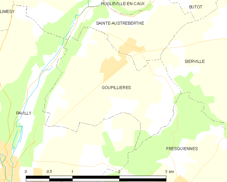 Map of French municipality Goupillières